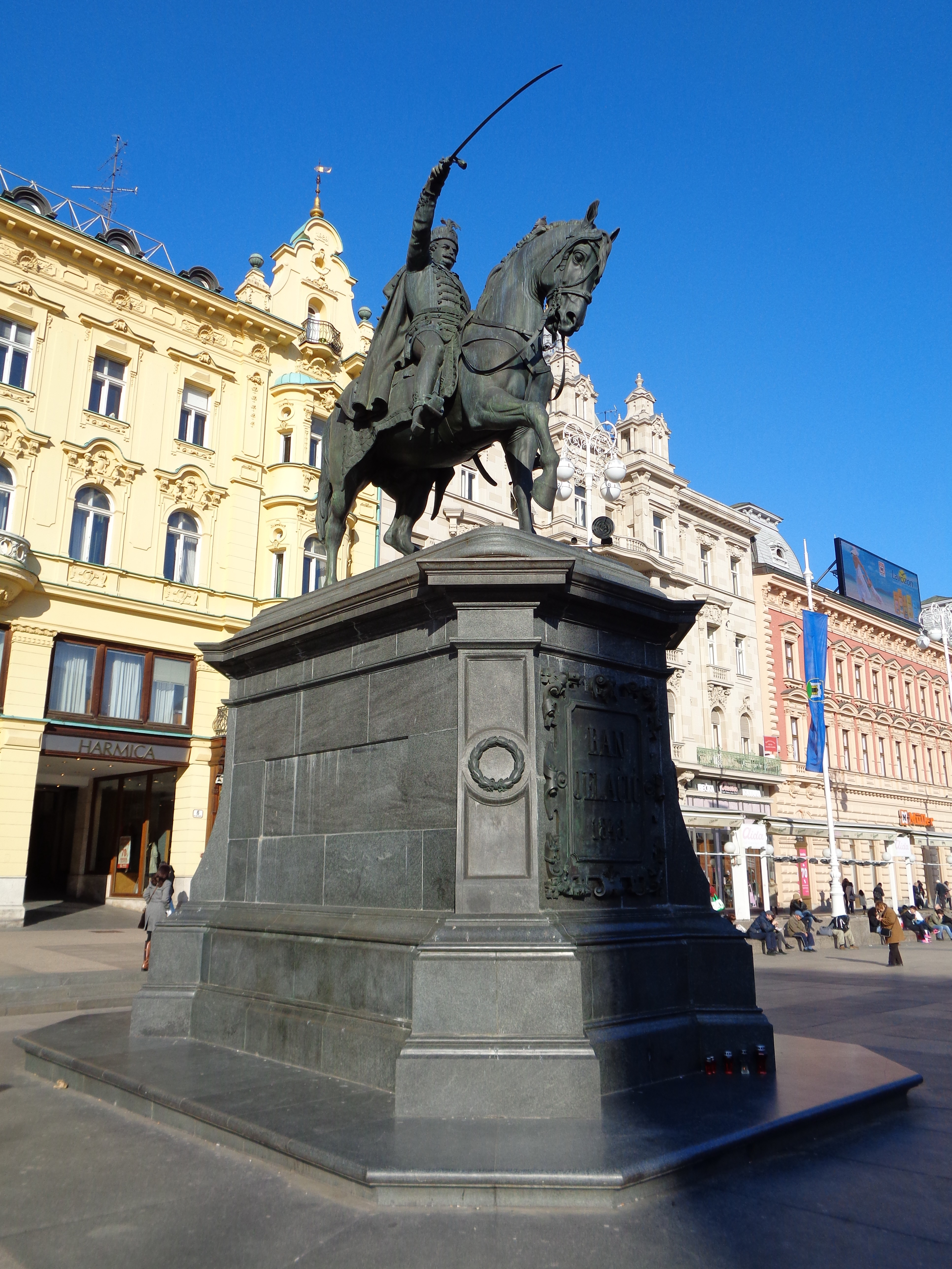 Monument to Josip Jelačić, Ban (Viceroy) of Croatia, at Jelačić Square in Zagreb, Croatia